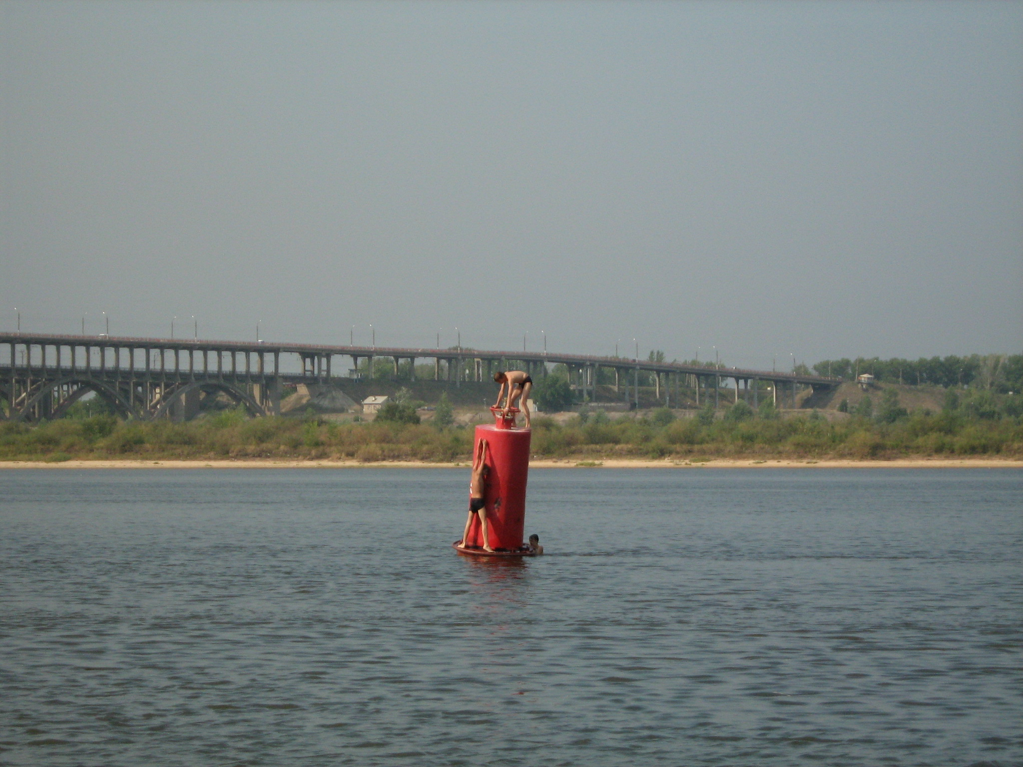 The northern (on-shore) section of the Volga Bridge in Nizhny Novgorod. In the foreground, kids are playing around a river buoy.